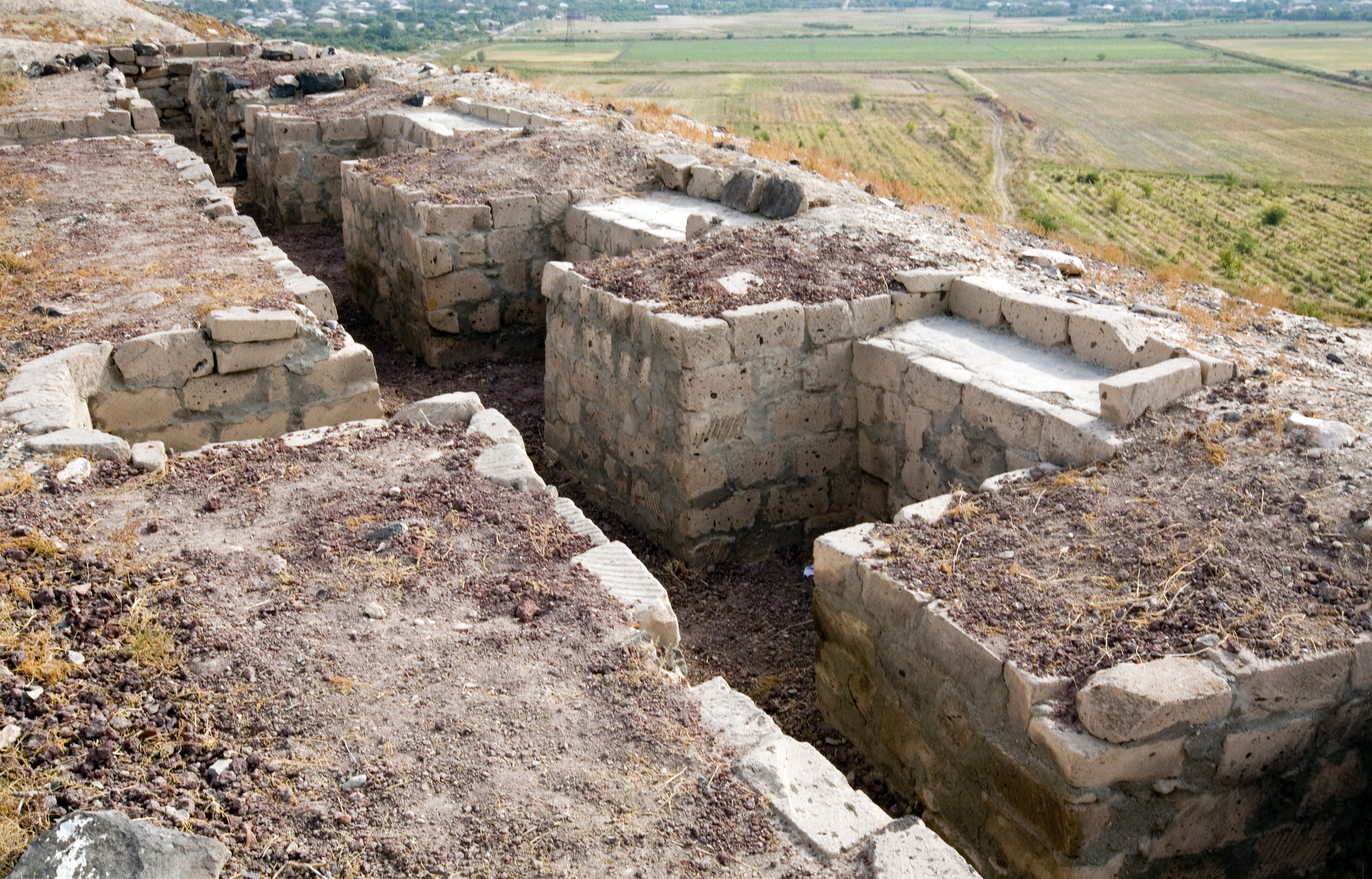 Reconstructed walls of Argishtihinili